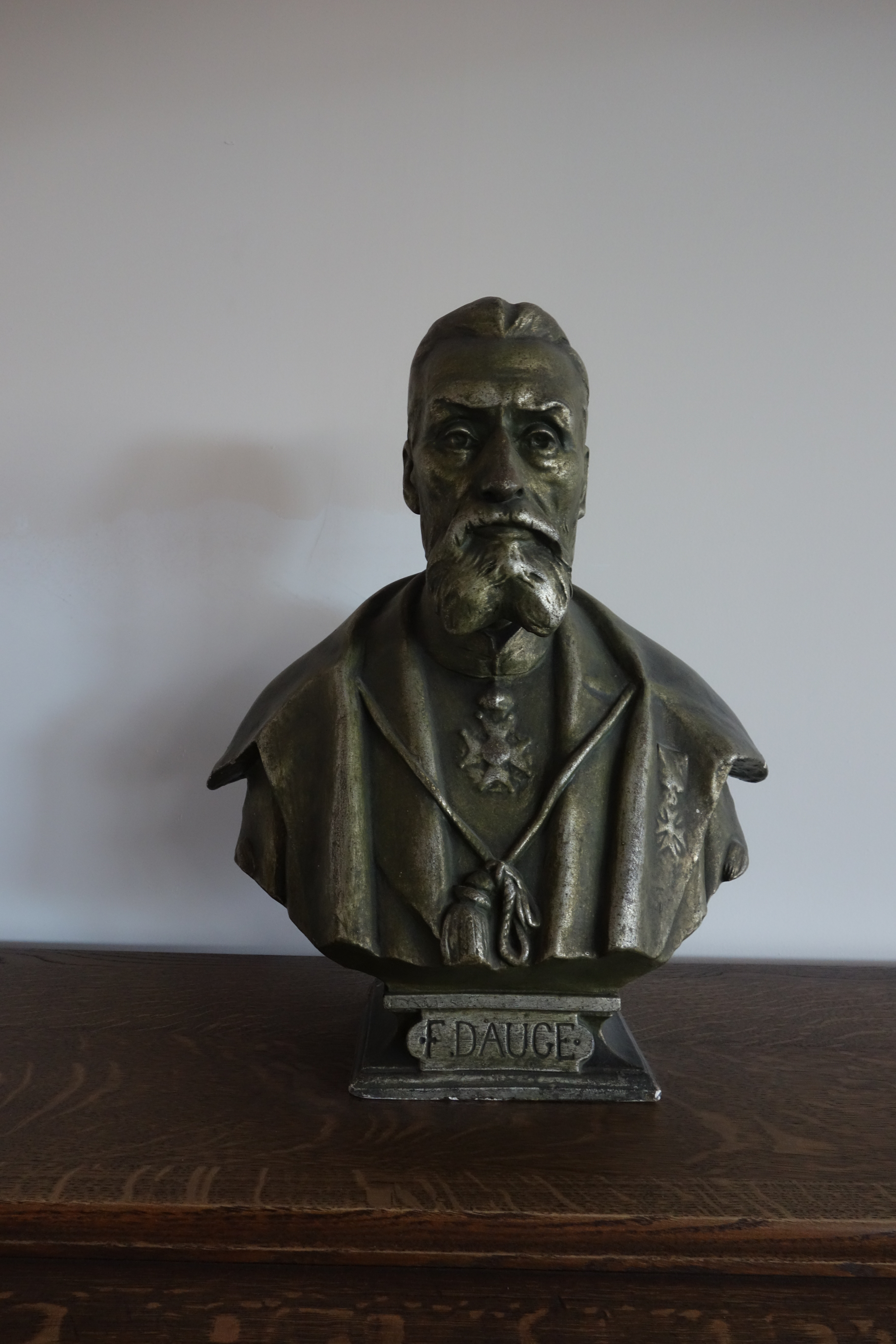 Small bust of Felix Dauge, Liberal politician (Belgium) and teacher at Ghent University. Sculptor unknown. Location: Ghent University, Campus Boekentoren.